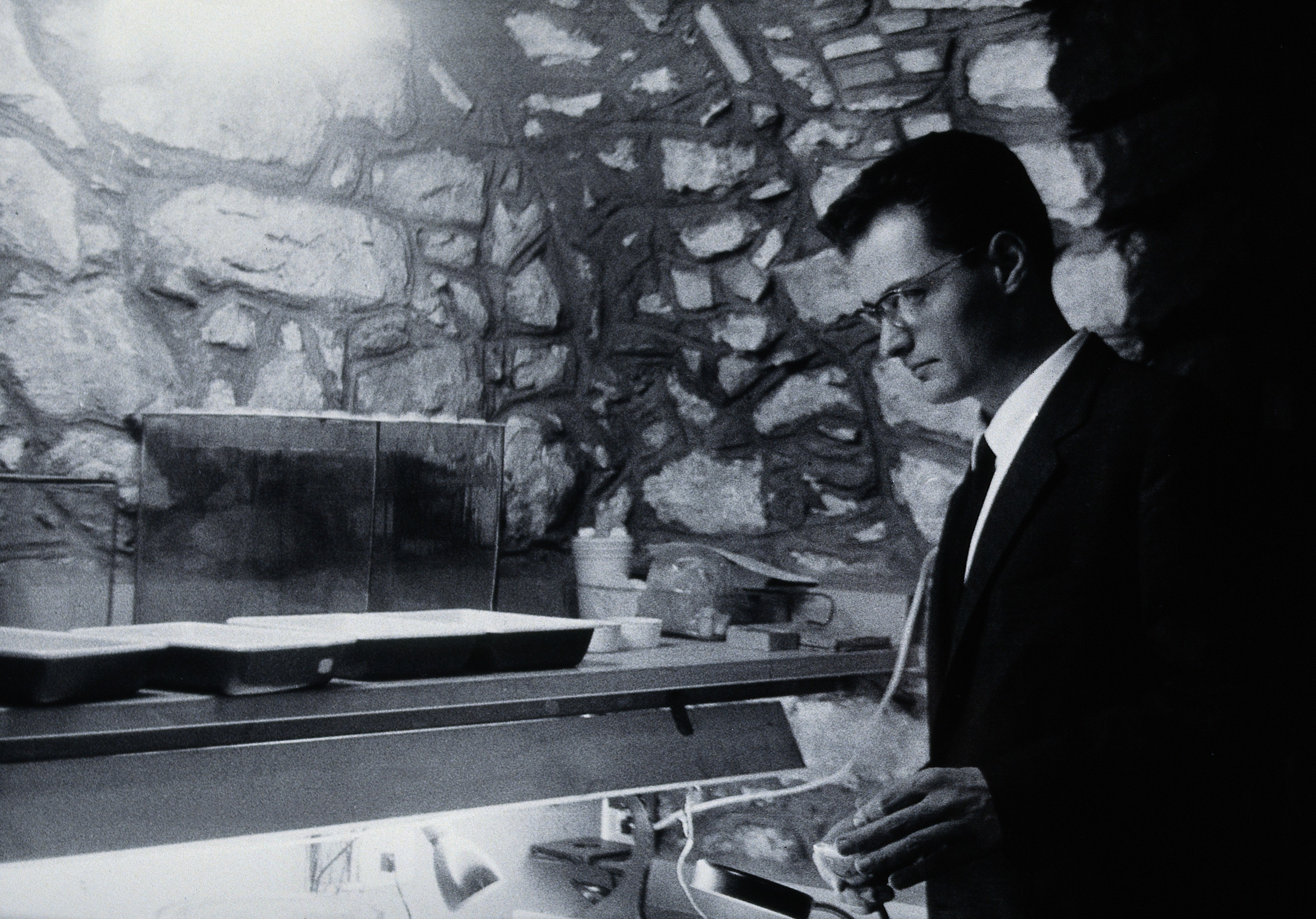 Italian malariologist Mario Coluzzi, photographed in the house of his father (Casa delle Palme), the epidemiologist Alberto Coluzzi, in Monticelli (Esperia, near Frosinone), in the room equipped for the breeding of larvae of mosquitoes. Photograph by L.J. Bruce-Chwatt. Iconographic Collections Keywords: portrait photographs1